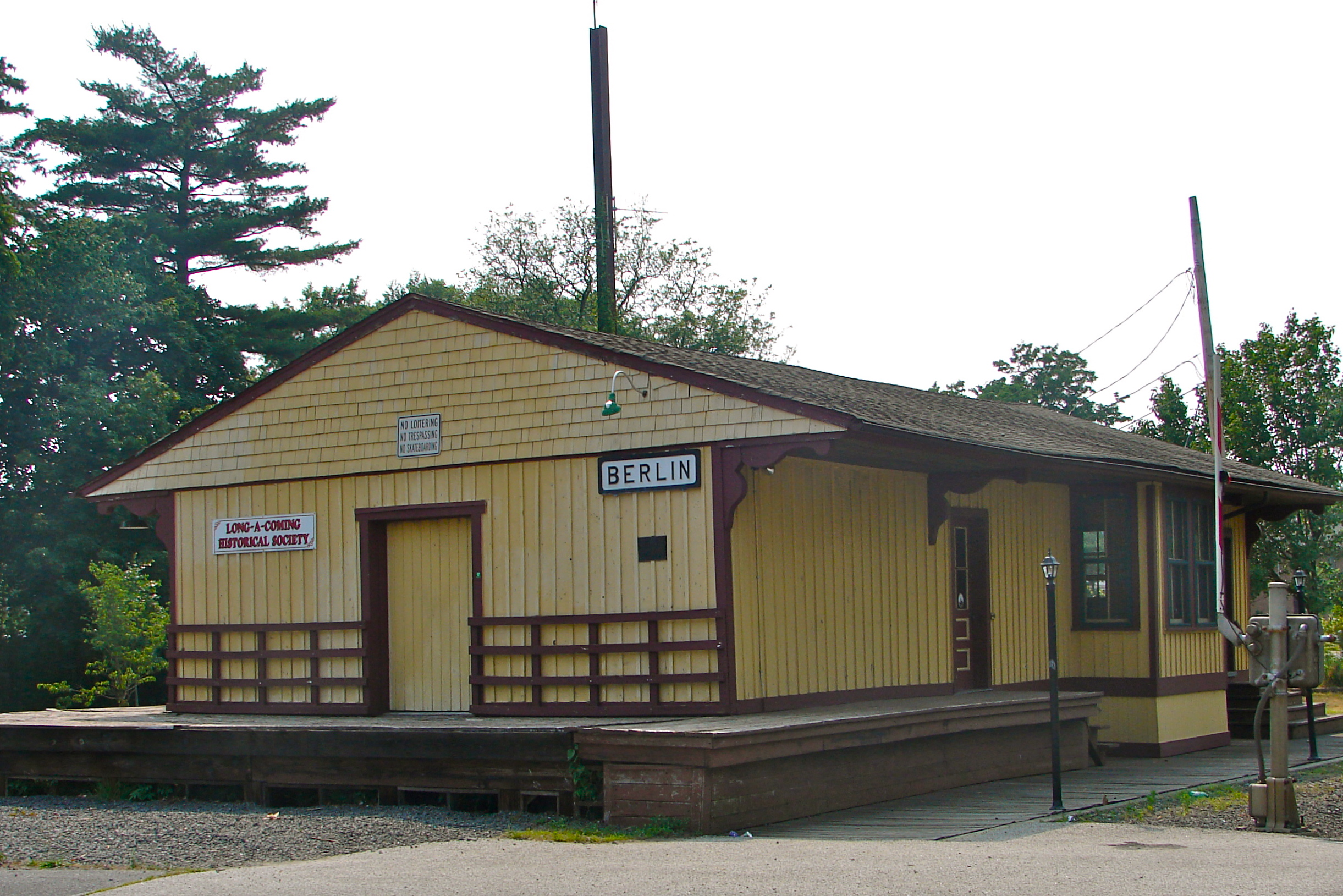 Berlin (NJ) Depot, aka Long-A-Coming Depot, on the NRHP since February 14, 1997. Located between Washington and E. Taunton Aves., SE of jct. of NJ 73 and E. Taunton Ave. (at the railroad track - used by NJ Transit - single track, be careful!), Berlin, Camden County, New Jersey. Said to be oldest extent railway station in New Jersey.